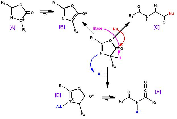 General reactivity of 5-(4H)-oxazolones